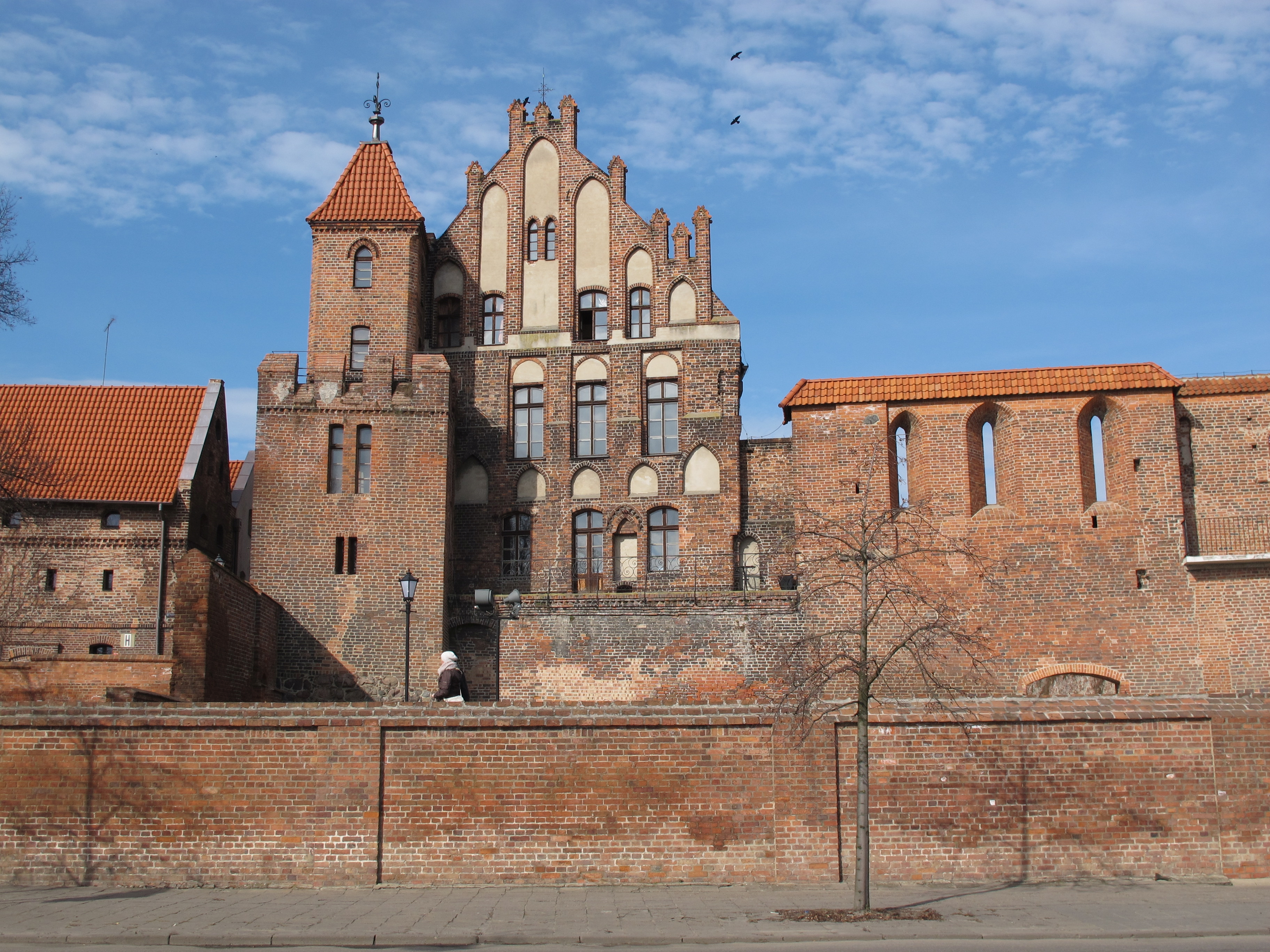 Toruń - St. George's Guildhall